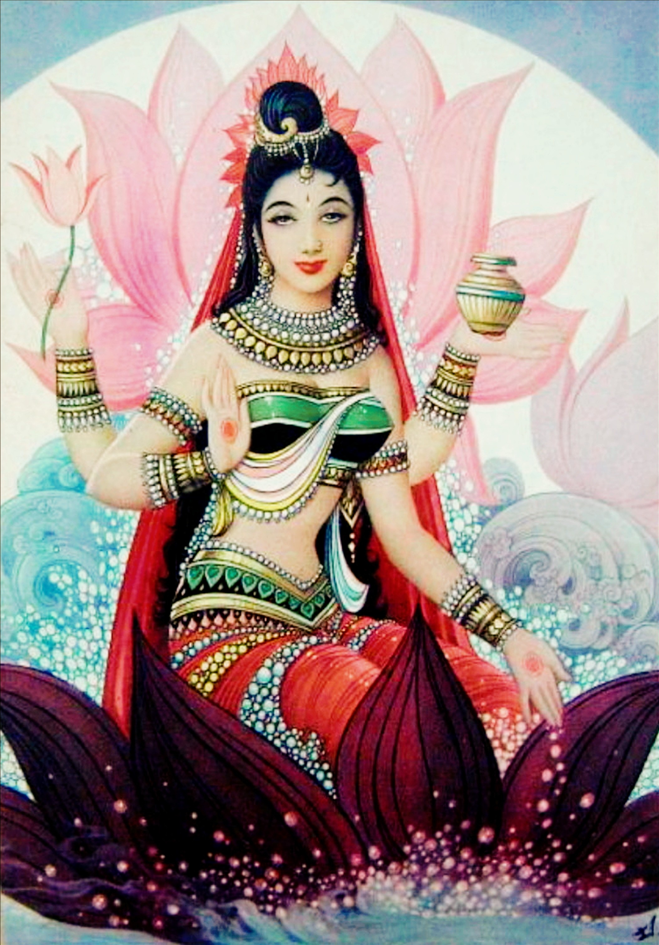 And of course, there's his consort, a powerful deity in her own right, Shri Lakshmi herself (bazaar art, 1940's) Source: ebay, Nov. 2006